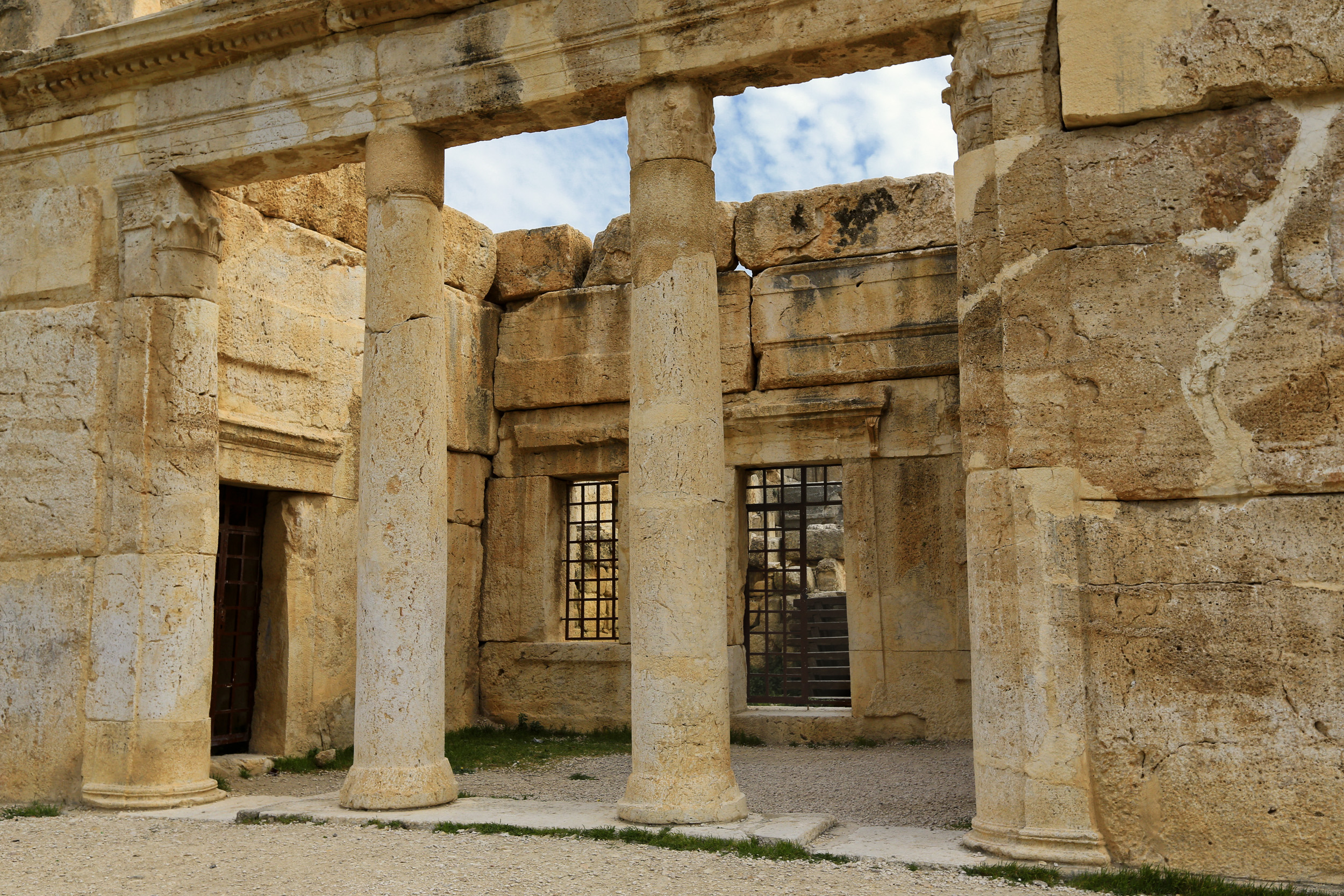 Iraq al-Amir (Castle Interior)